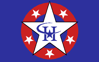 Flag of Harlingen, Texas. I made this image myself, based on the picture shown here ( However, my version is better, because the colors do not merge.